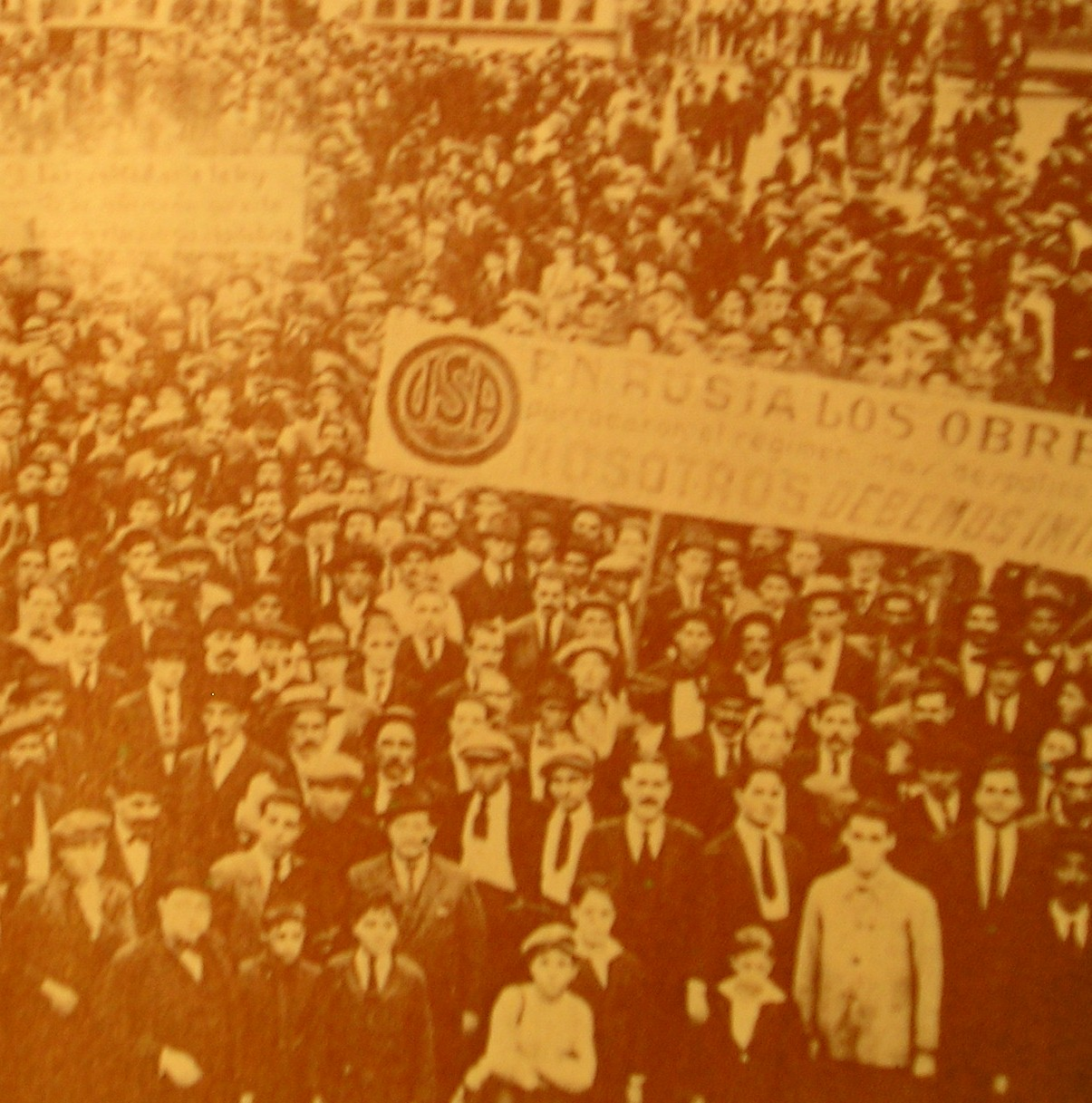 Trade union march in Argentina organized by USA (Unión Sindical Argentina).